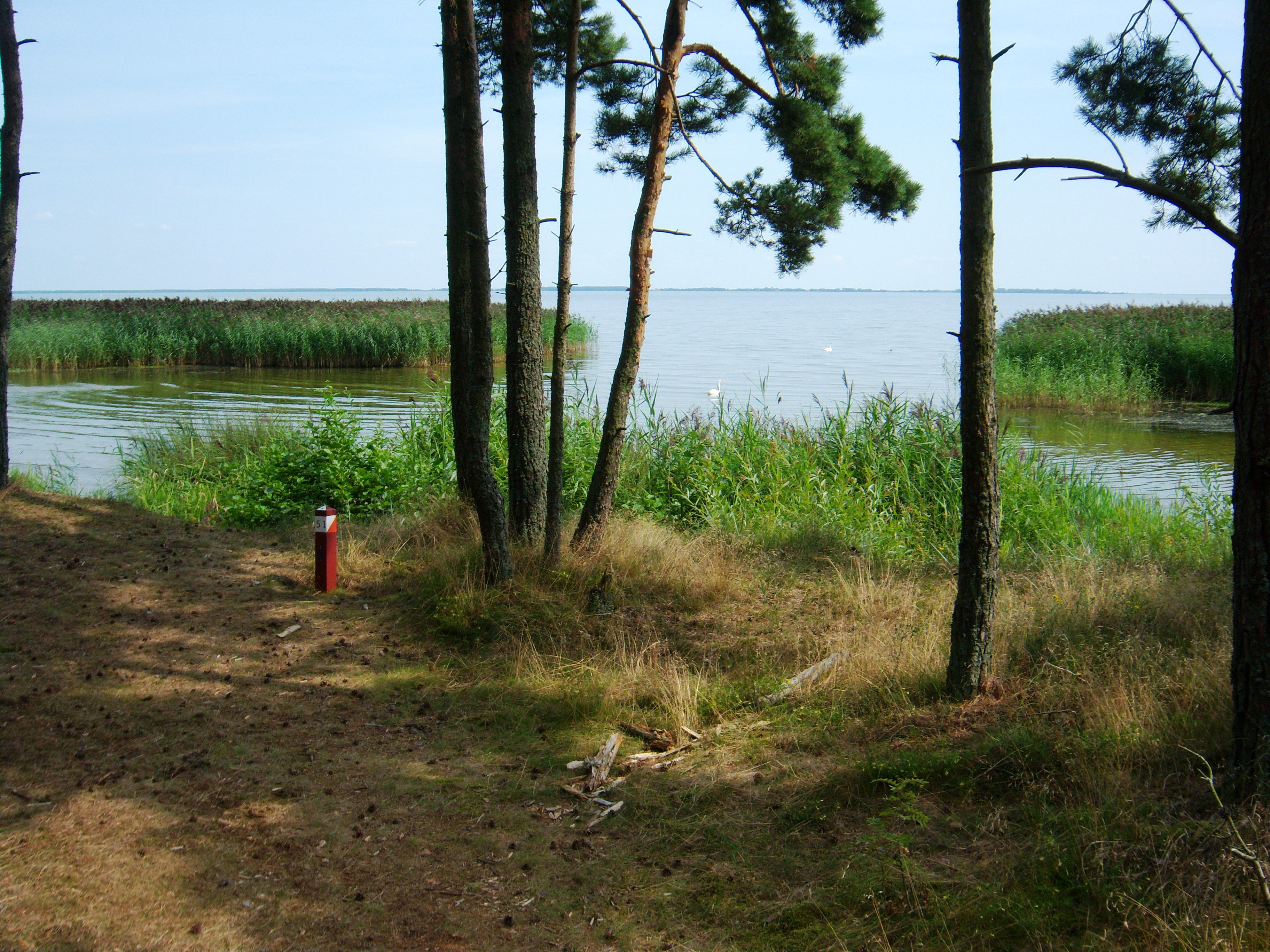 Coast of Ožkų Cape by Preila, Neringa, Lithuania